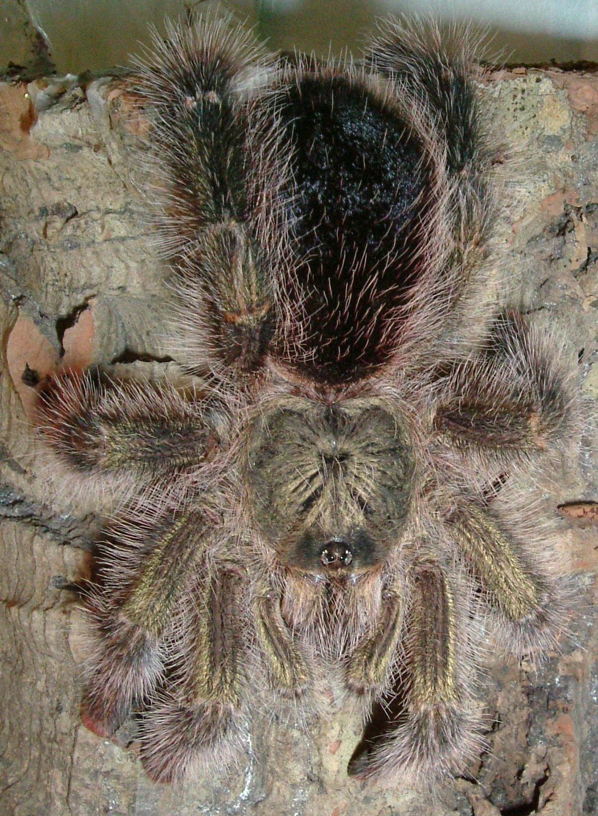 Avicularia aurantiaca, adult, female